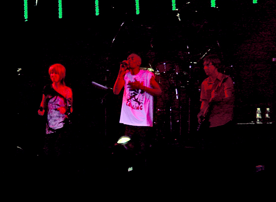 Faithless performing at the Coachella Valley Music and Arts Festival (April 27, 2007).